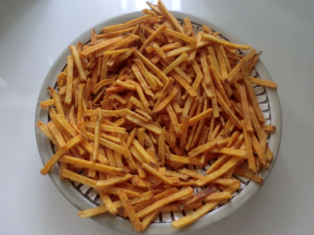 Japanese hot snack "Kara Mucho" mede by Koikeya.